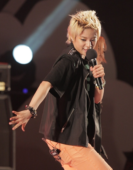 Amber Liu at the Music Show in Seoul Plaza on July 4, 2011.